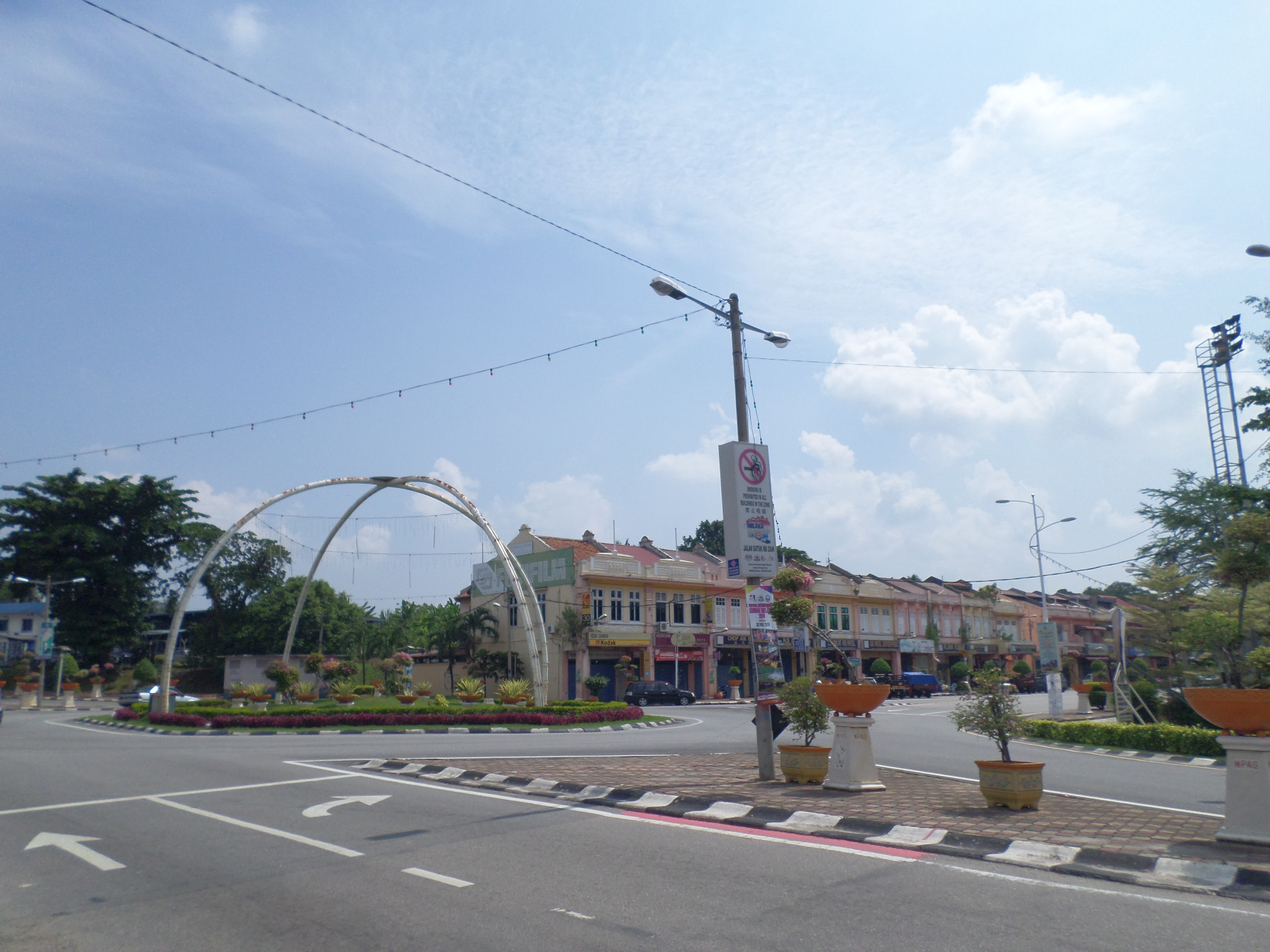 Alor Gajah Town, Alor Gajah, Melaka, MalaysiaBahasa Melayu: Bandar Alor Gajah, Alor Gajah, Melaka, Malaysia